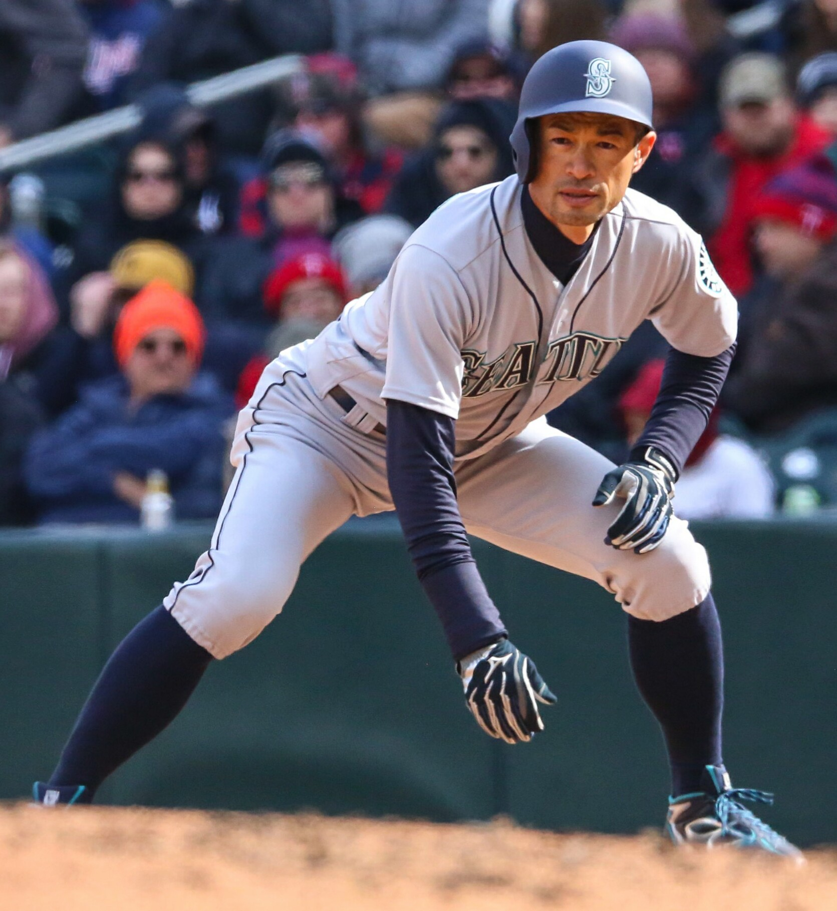 Ichiro Suzuki - Minnesota Twins - Opening Day vs Seattle Mariners